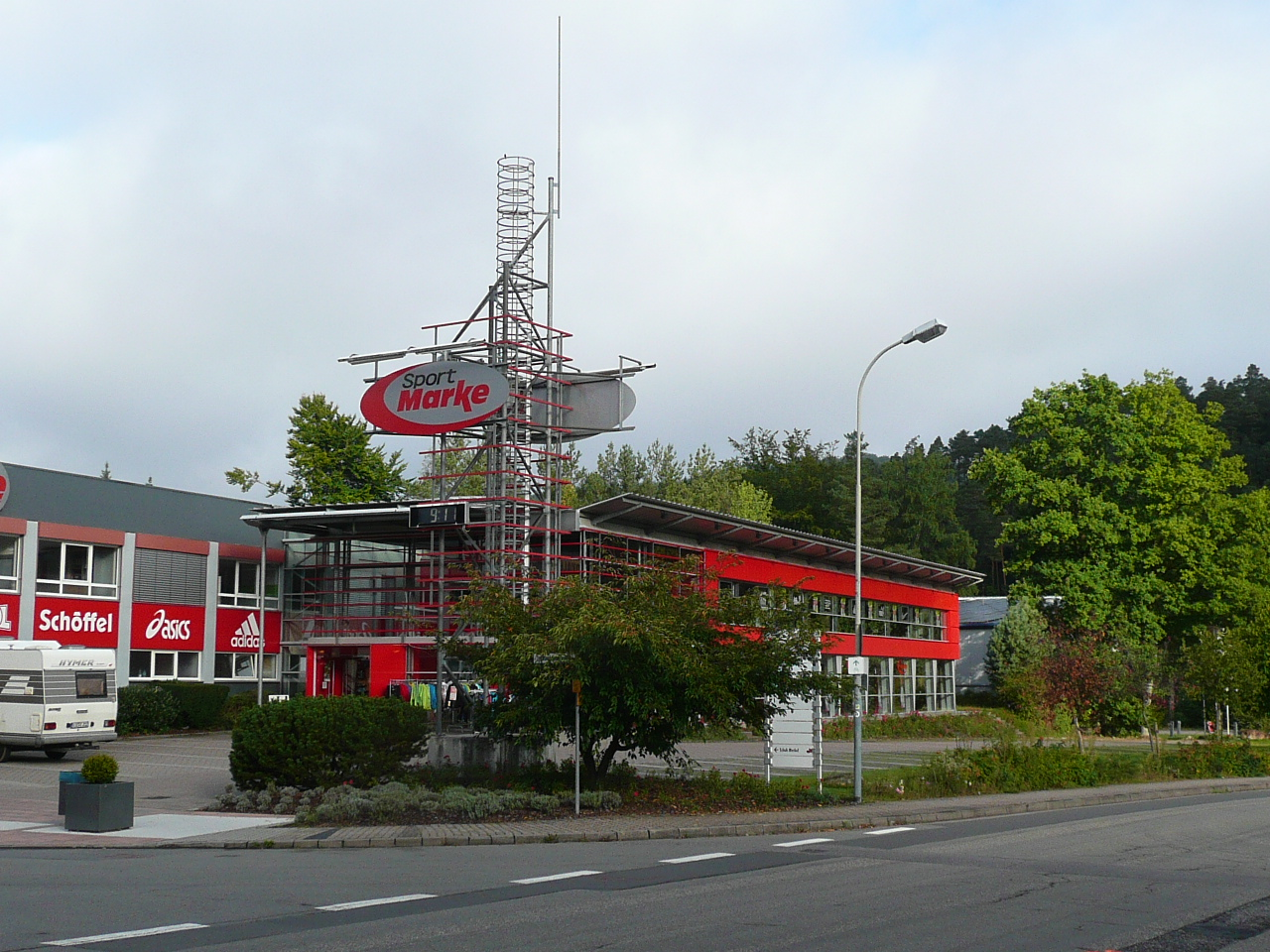 Shoe shopping center in HAUENSTEIN, near the B10, Rheinland-Pfalz.